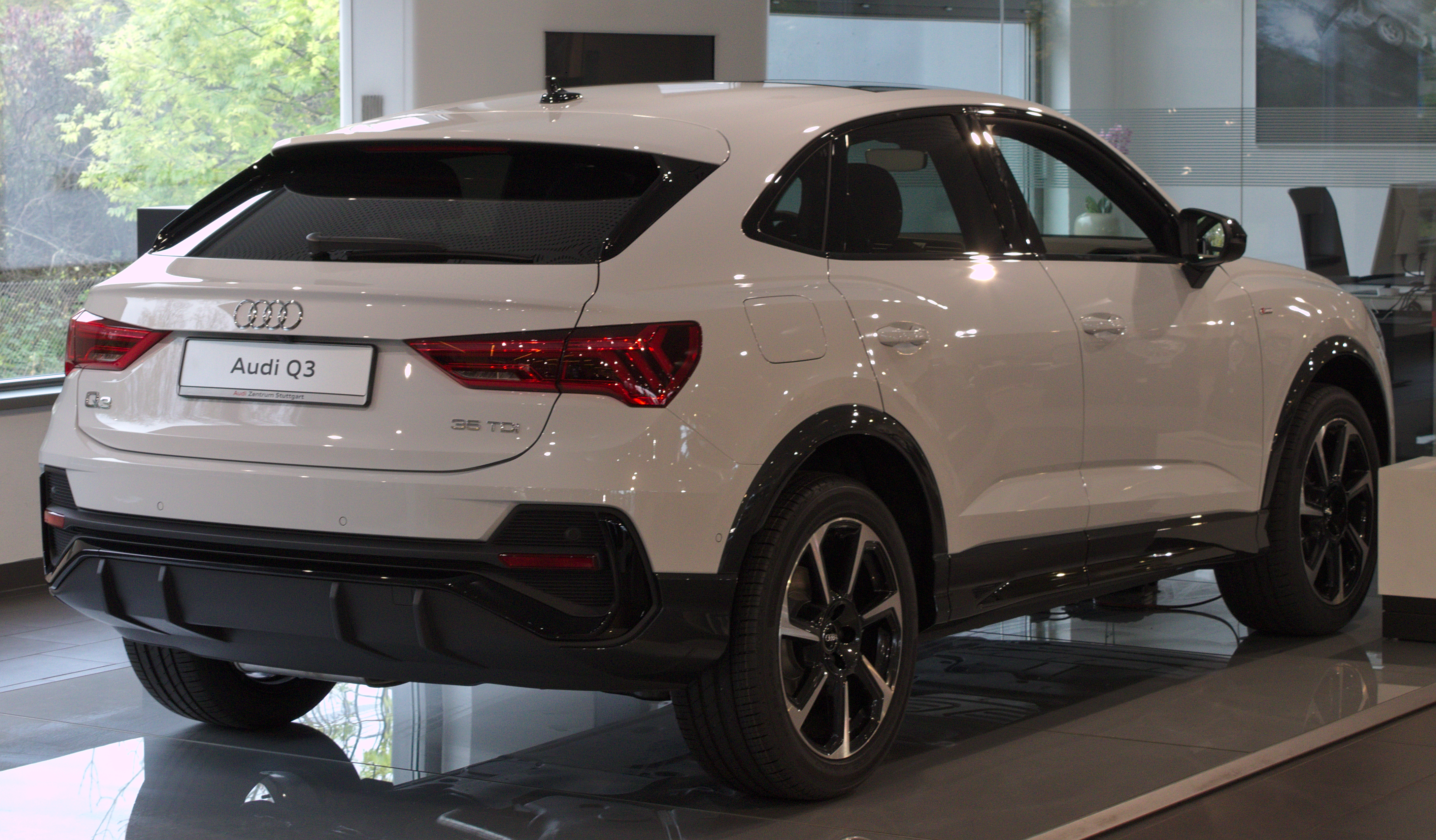 Audi_Q3_Sportback in Stuttgart-Vaihingen